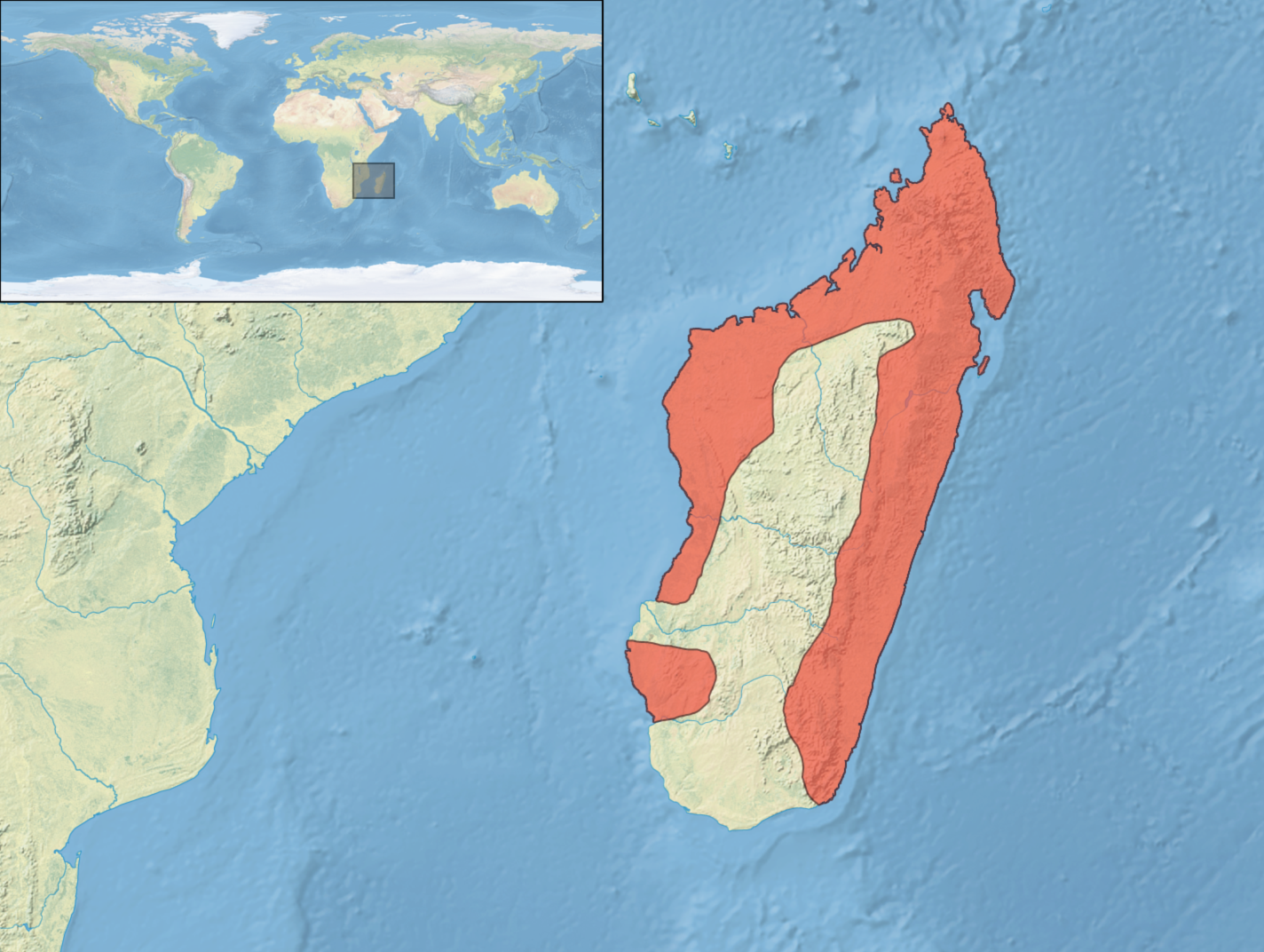 Distribution map of Aviceda madagascariensis (Madagascar Cuckoo-Hawk) Distribution data from BirdLife International 2009. Aviceda madagascariensis. In: IUCN 2011. IUCN Red List of Threatened Species. Version 2011.2. . Downloaded on 12 February 2012. Map from Natural Earth